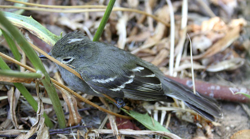 Chilean Elaenia (Elaenia chilensis) in Chile.